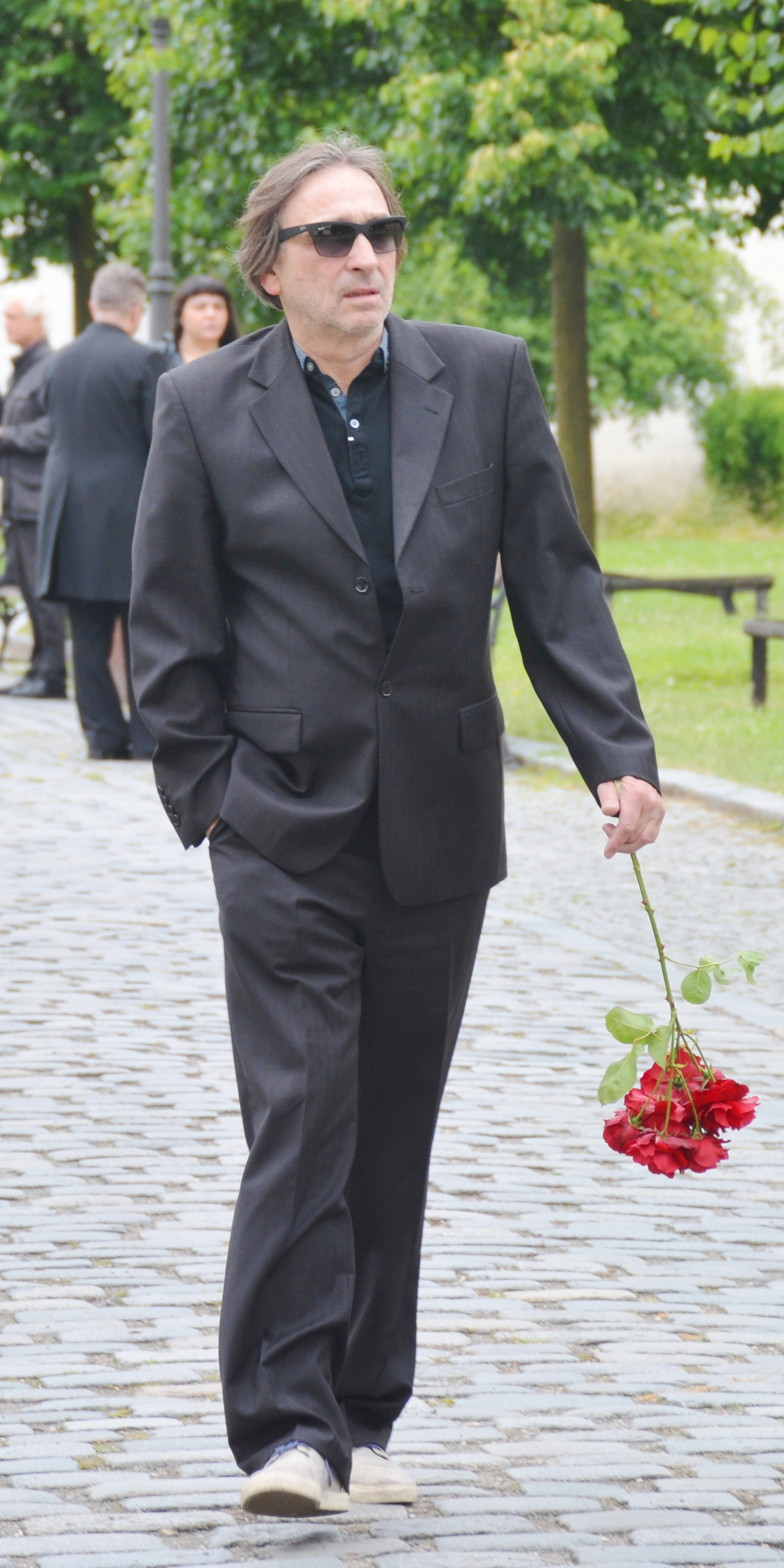 Ondřej Pavelka, Czech actor